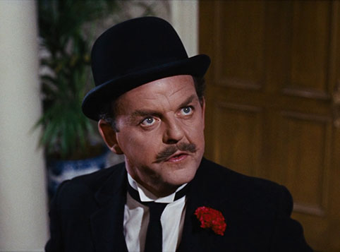 Screenshot of David Tomlinson from the trailer for the film Mary Poppins